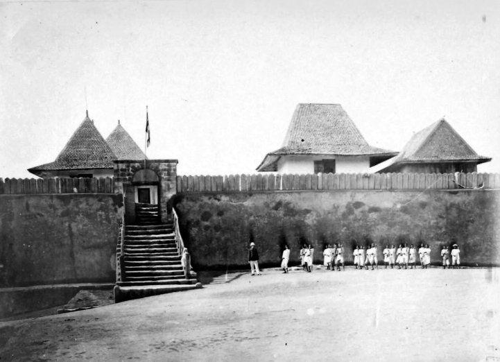 Tsinjoarivo rova, a royal palace built by Queen Ranavalona I in the early 19th century in Madagascar